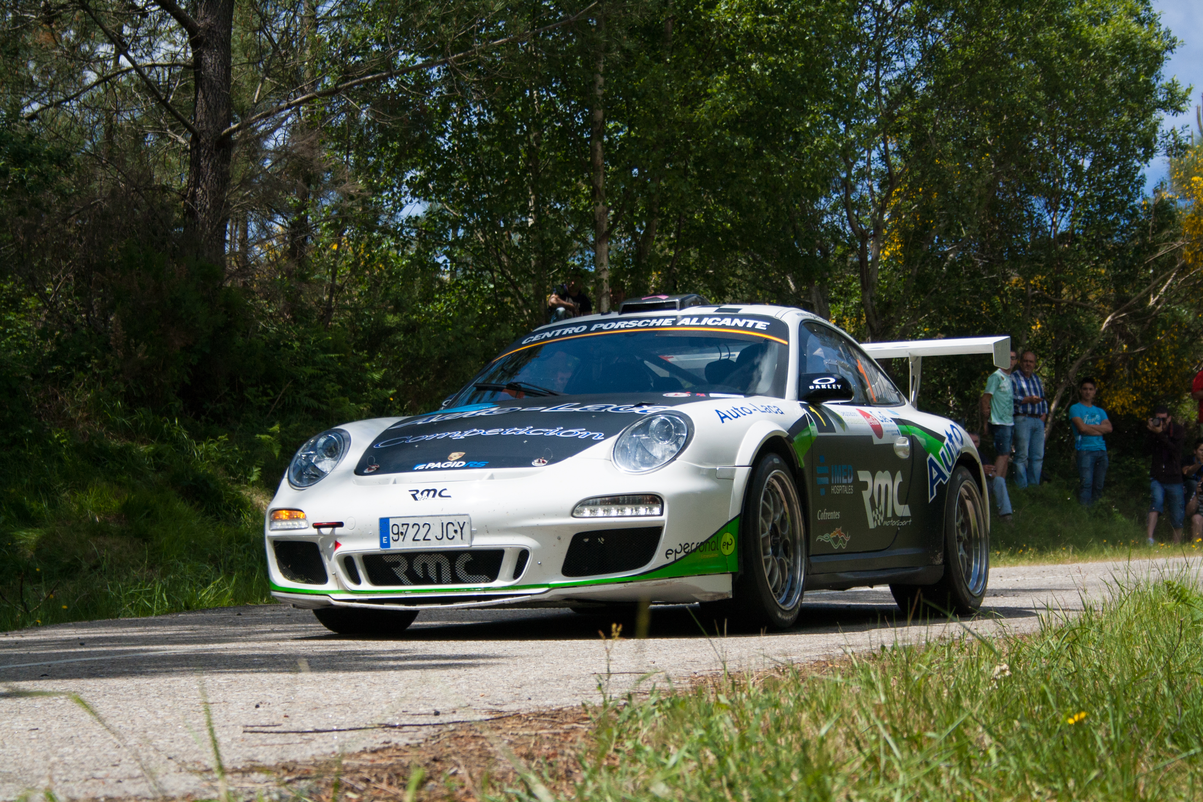 MIGUEL FUSTER IGNACIO AVIÑO